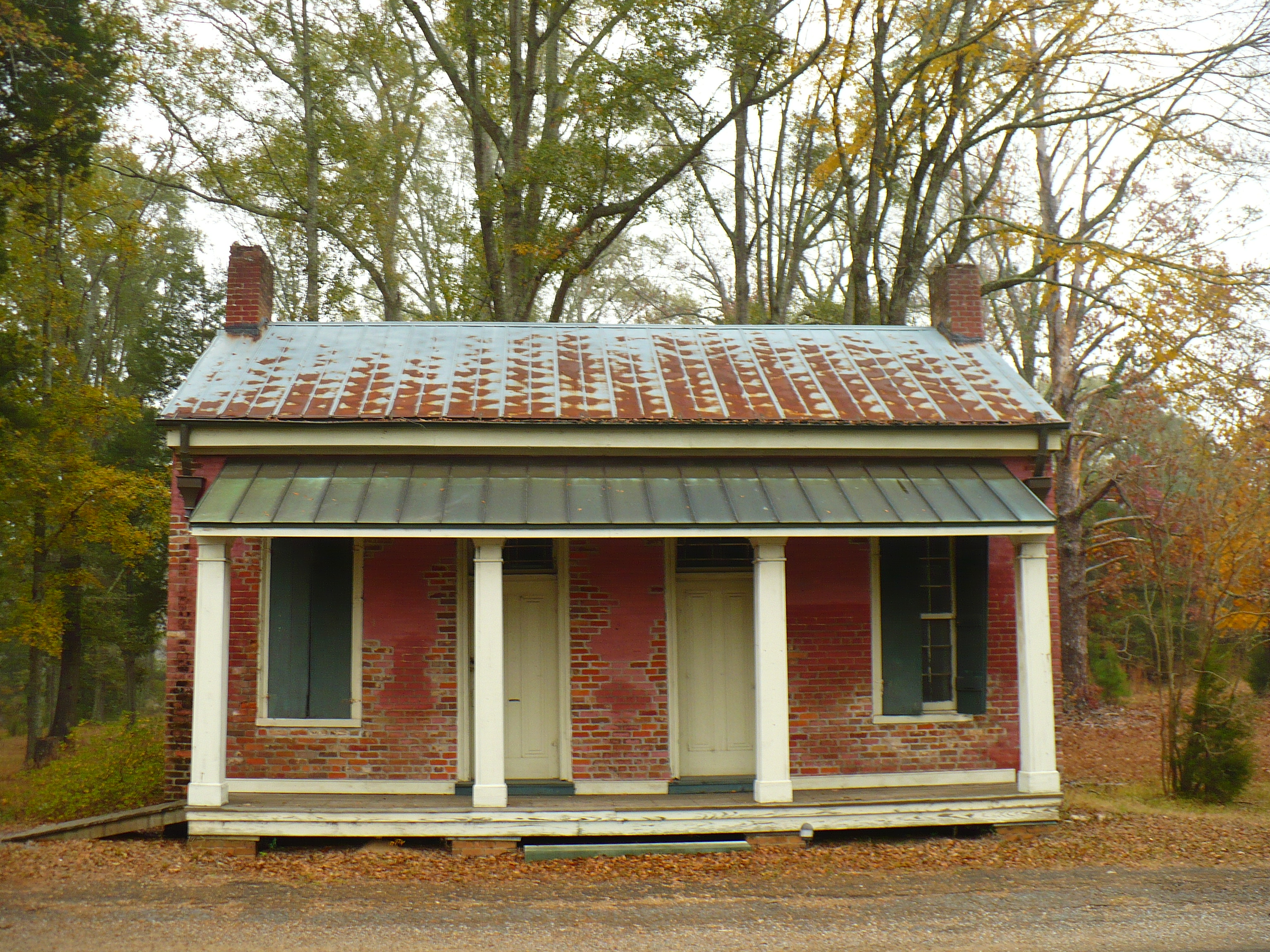 Boddie Law Office, also known as the Dayton Town Hall, in Dayton, Marengo County, Alabama. On the Alabama Register of Landmarks and Heritage.